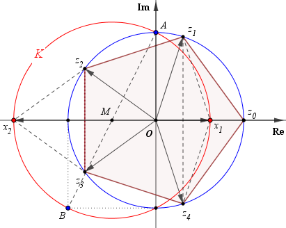 Construction of a regular pentagon using a Carlyle circle